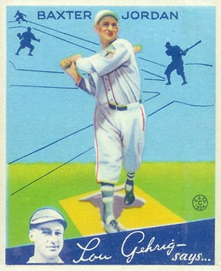 1934 Goudey baseball card of Baxter "Buck" Jordan of the Boston Braves. PD-not-renewed.